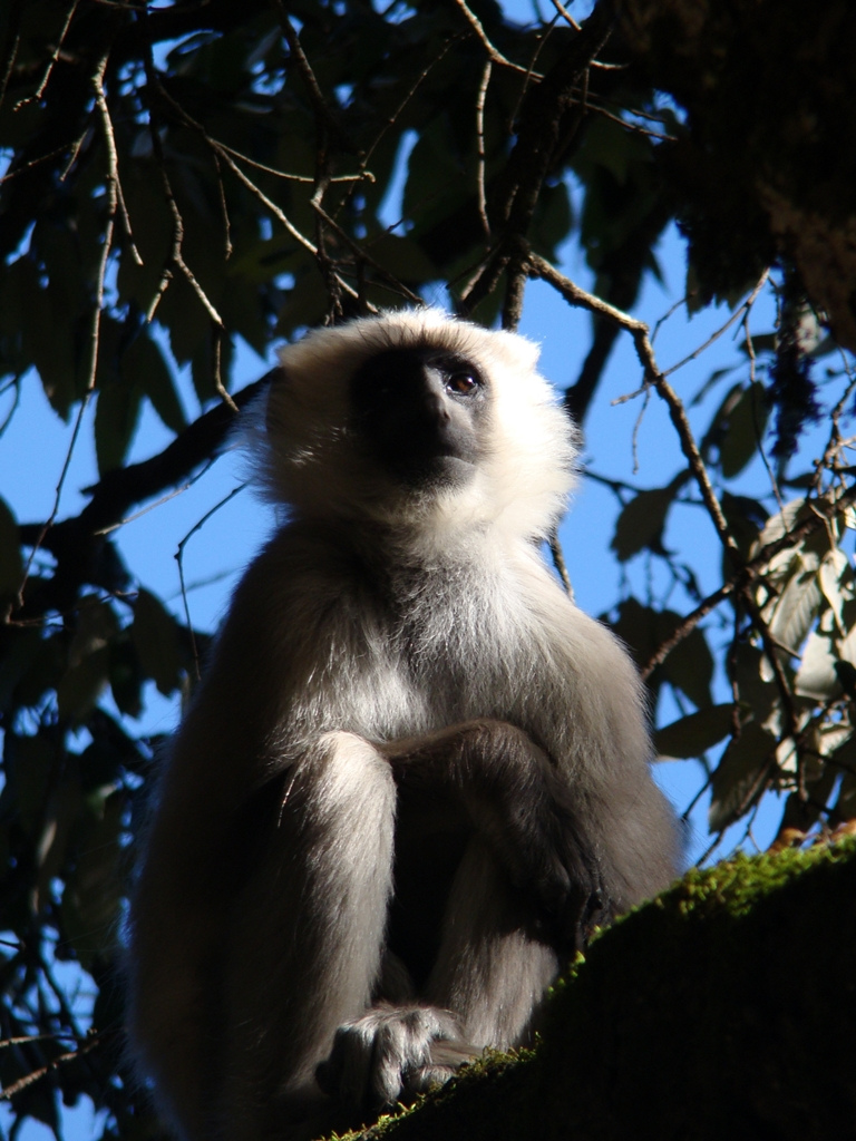 Tarai Grey Langur